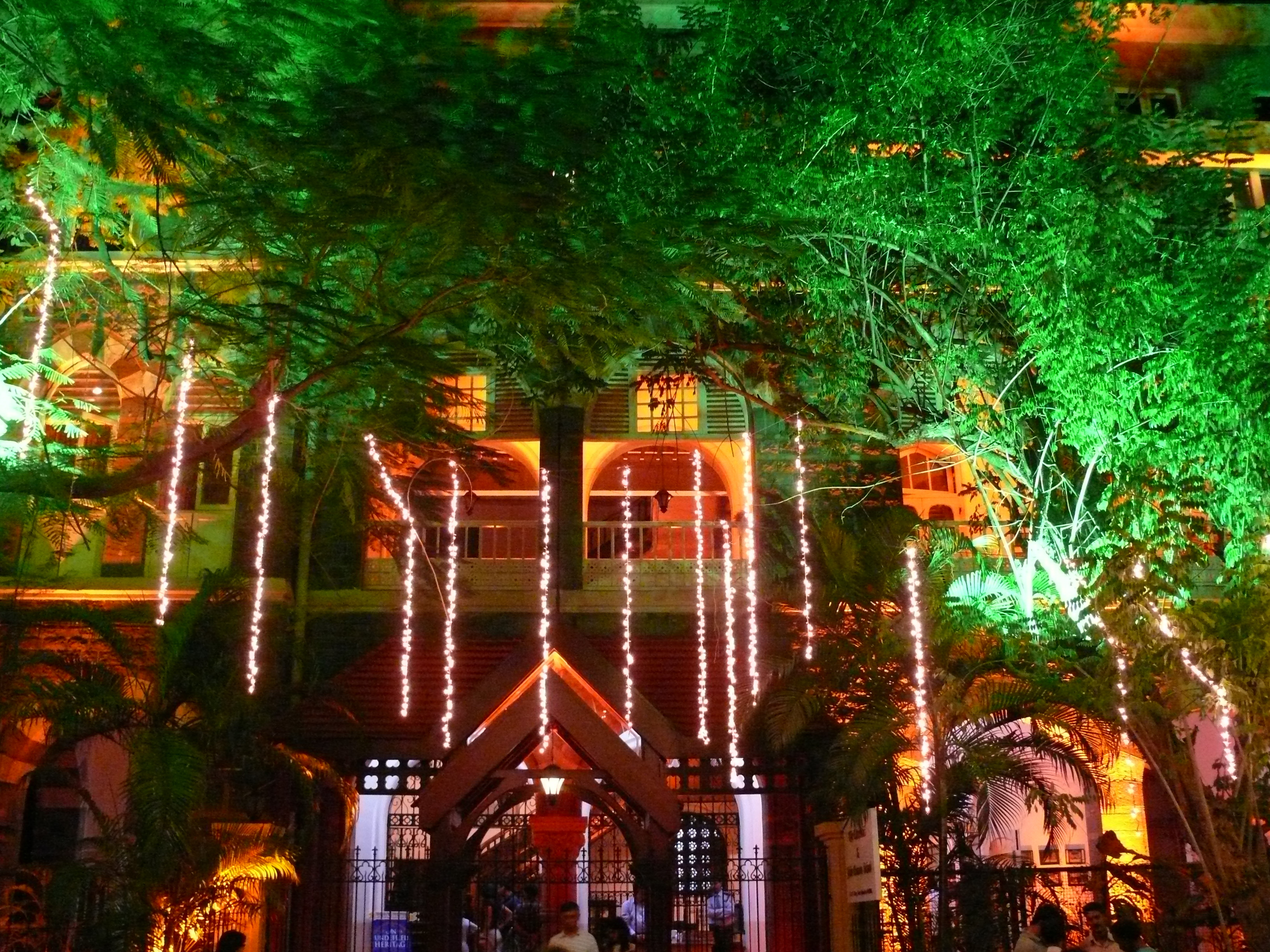 Cathedral and John Connon, Mumbai. Image taken during 150th foundation day celebrations.